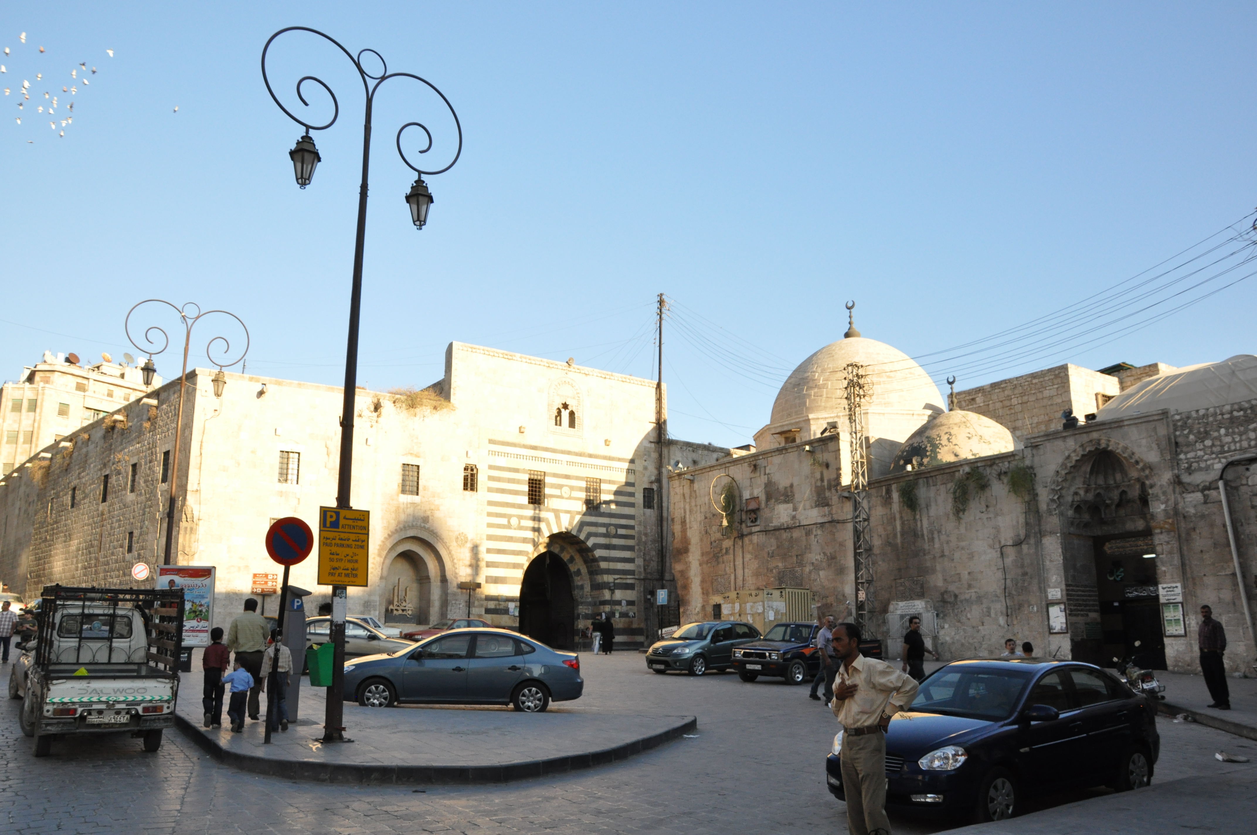 Khan al-Wazir with Sahibiyah mosque, Aleppo.